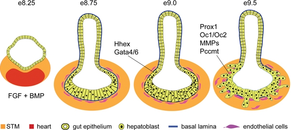 The schematics depict transverse sections through the gut tube at the level of the liver diverticulum at different developmental stages in liver bud formation. After hepatic specification by FGF and BMP signals from the heart and septum transversum mesenchyme (STM) the hepatoblasts begin to express liver markers, the hepatic epithelium thickens then and transitions from a columnar to a pseudostratified epithelium (e8.75-e9.0). At this stage the hepatic epithelium is embedded in the STM and surrounded by a laminin rich basement membrane and endothelial cell precursors. By e9.5 the basal lamina breaks down and hepatoblasts delaminate and migrate into the STM to form the liver bud. Signals from the endothelial cells, the STM, as well as the activity of the indicated genes are required for this process.